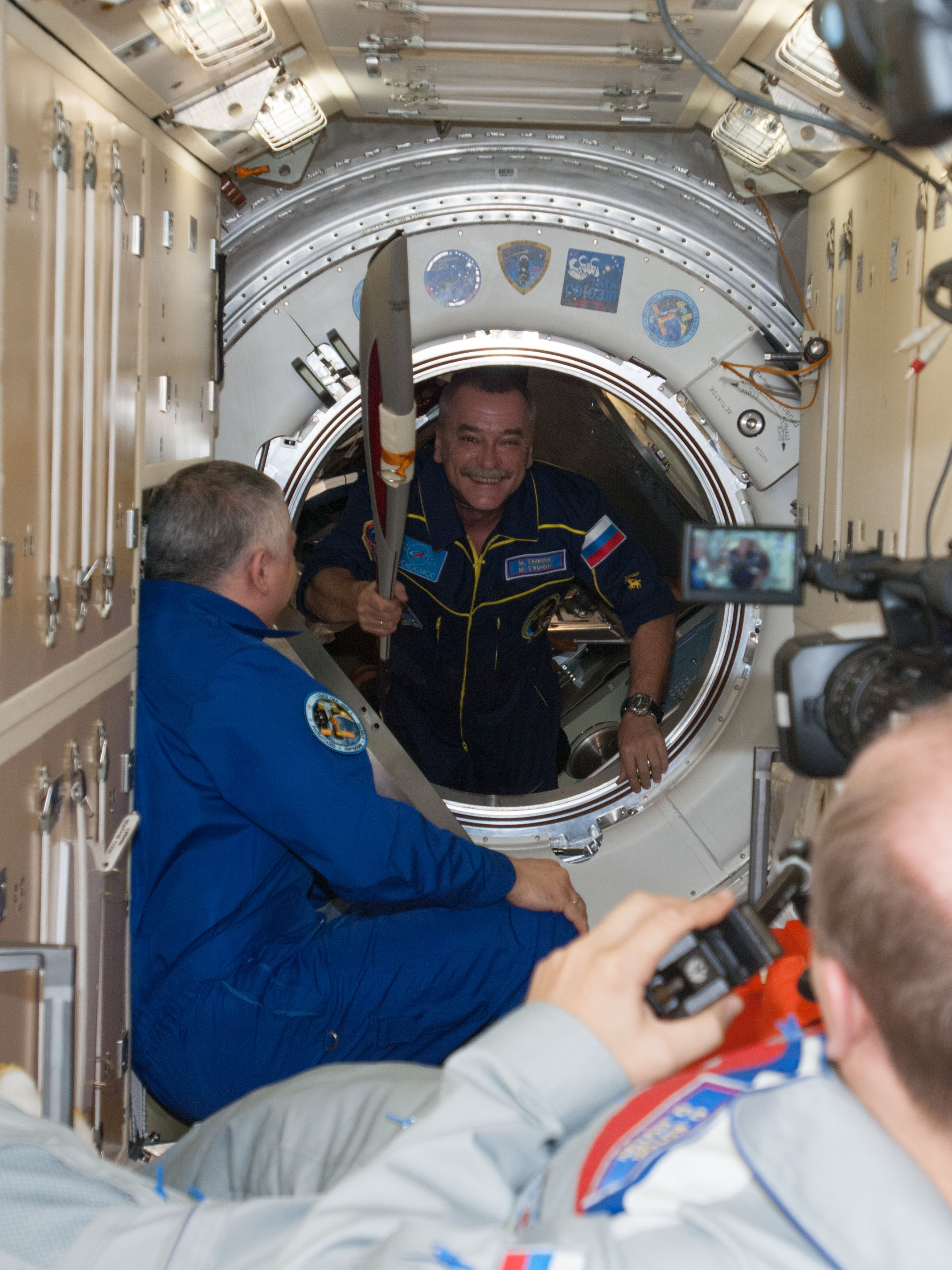 In the International Space Station's Rassvet Mini-Research Module 1 (MRM1), Russian cosmonaut Fyodor Yurchikhin, Expedition 37 commander, welcomes Russian cosmonaut Mikhail Tyurin (holding the Olympic torch), Expedition 38 flight engineer, after arriving onboard a Soyuz spacecraft with Japan Aerospace Exploration Agency astronaut Koichi Wakata and NASA astronaut Rick Mastracchio, both Expedition 38 flight engineers. Russian cosmonaut Oleg Kotov (foreground), Expedition 37 flight engineer, captures the event with a video camera.